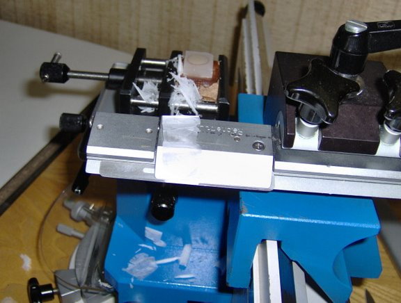 Section cutting on a sledge microtome, the fairly common Reichert-Jung Hn40. The microtome has been set up to cut an unproblematic sample (a piece of dandelion root). The specimen is embedded in paraffin, section thickness: 5 µm.